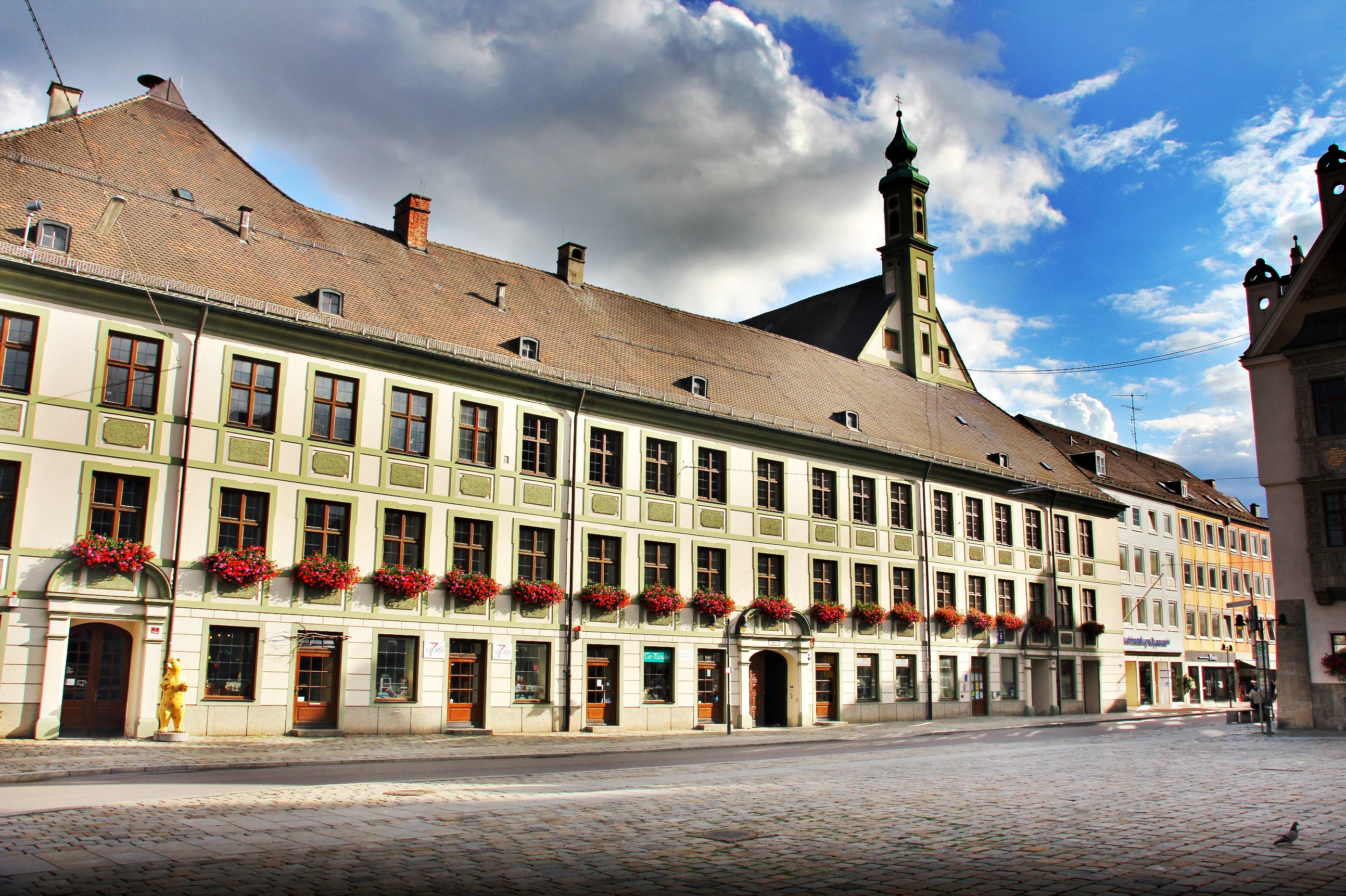 This is a photograph of an architectural monument.